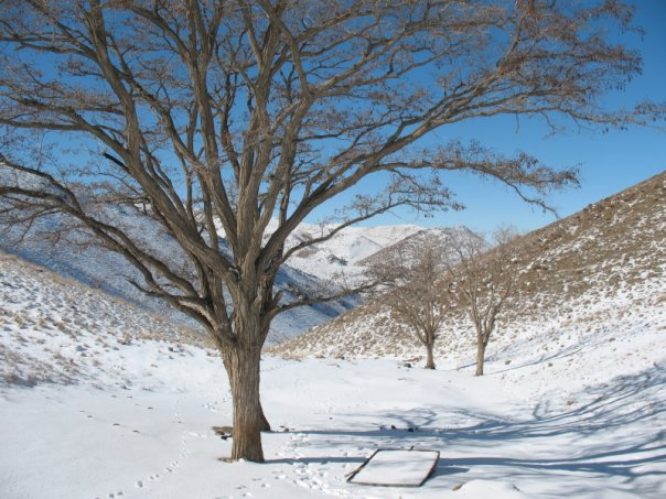 The gerdo Hills in Arak